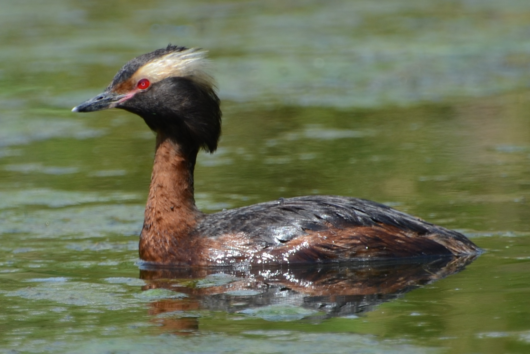 Horned grebe in Edmonton, Alberta, 2013